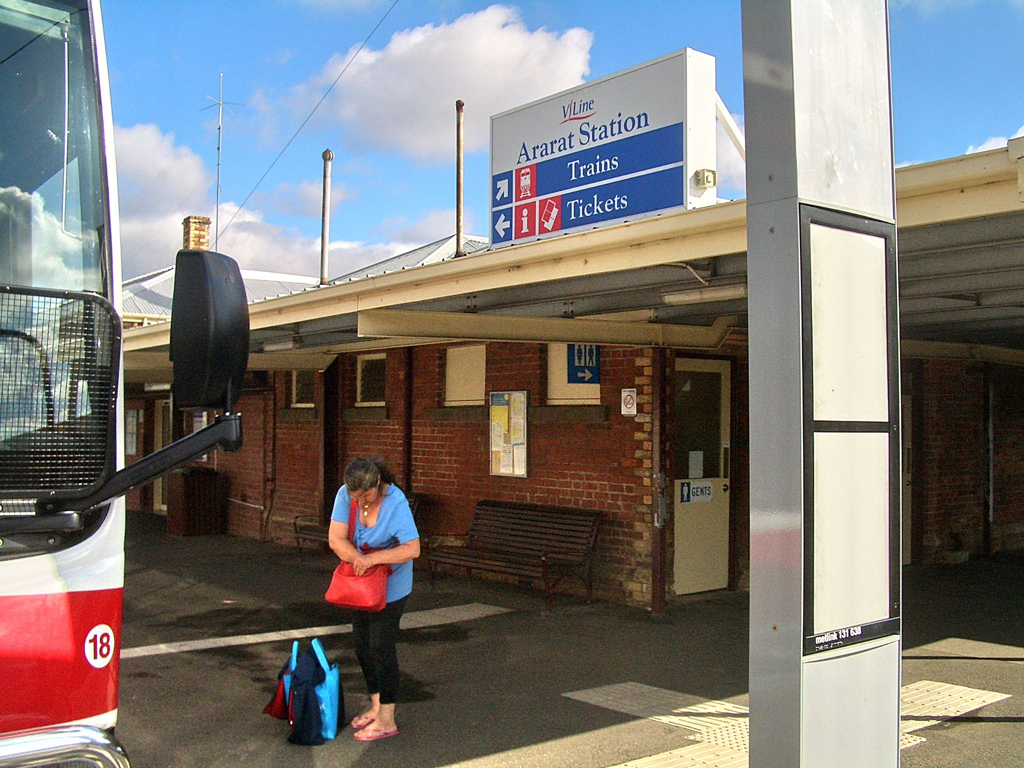 Ararat Station, Victoria (VLine trains and buses stop there)